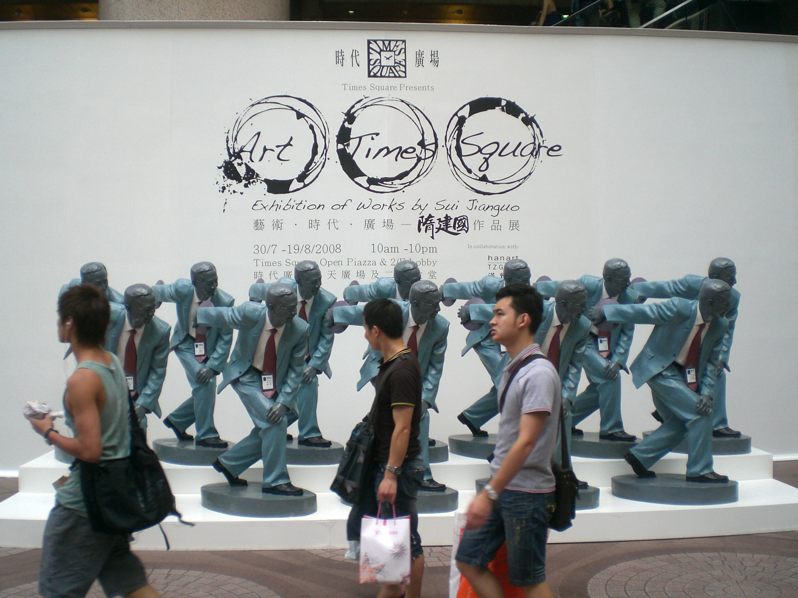 香港時代廣場當代藝術展覽2008年8月, Sui Jianguo 隋建國Art Exhibition in 2008